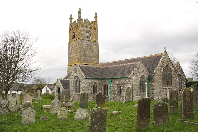 Sithney Church. This church is dedicated to St Sithney, which is also the name of the village in which the church stands.